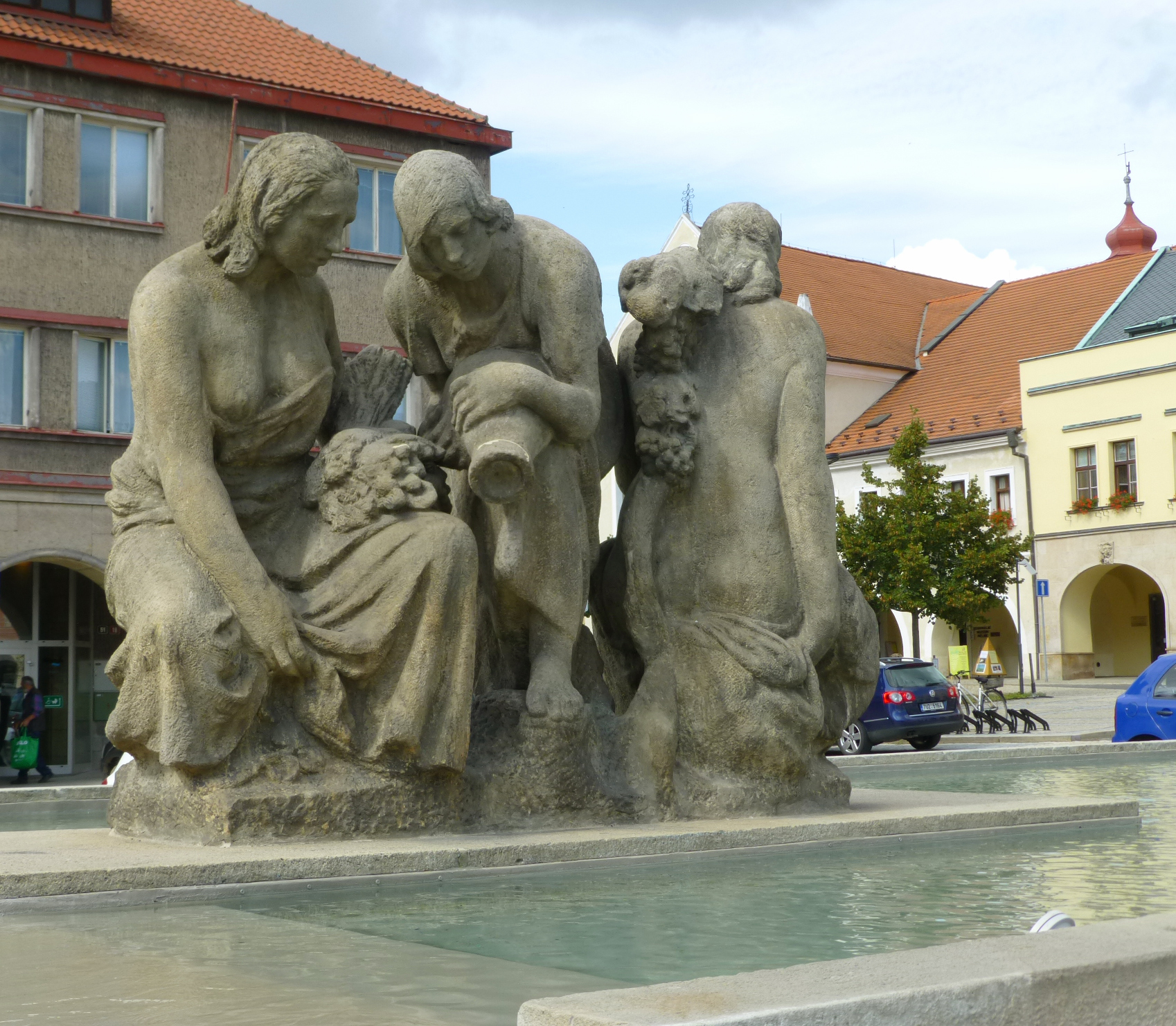 Sculpture in the Mělník main place fountain, representing an Allegory of a Wine Harvest by 3 women, 1938 (?).